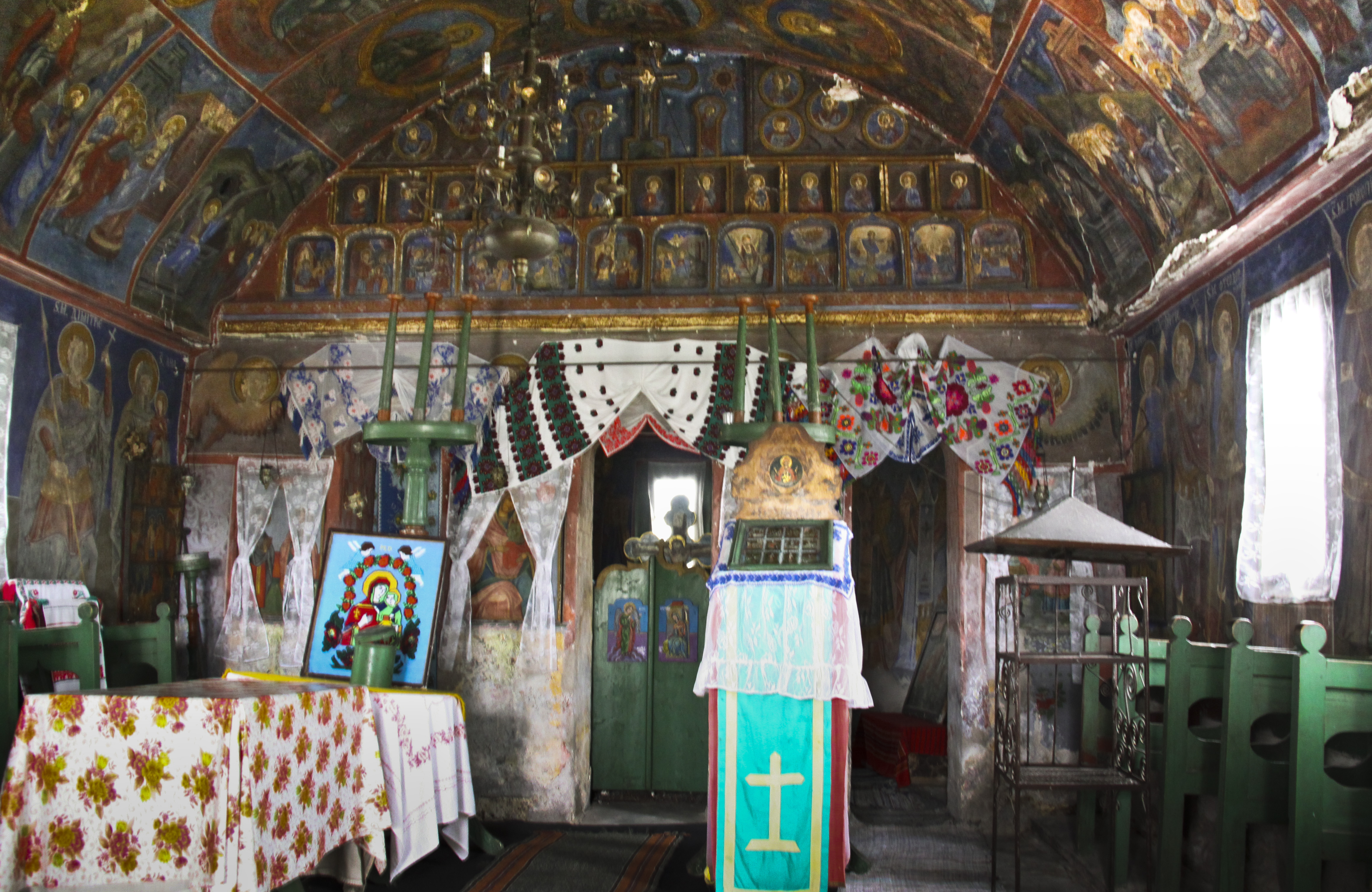 Ceauşeşti, Argeş county, Romania: the wooden church.